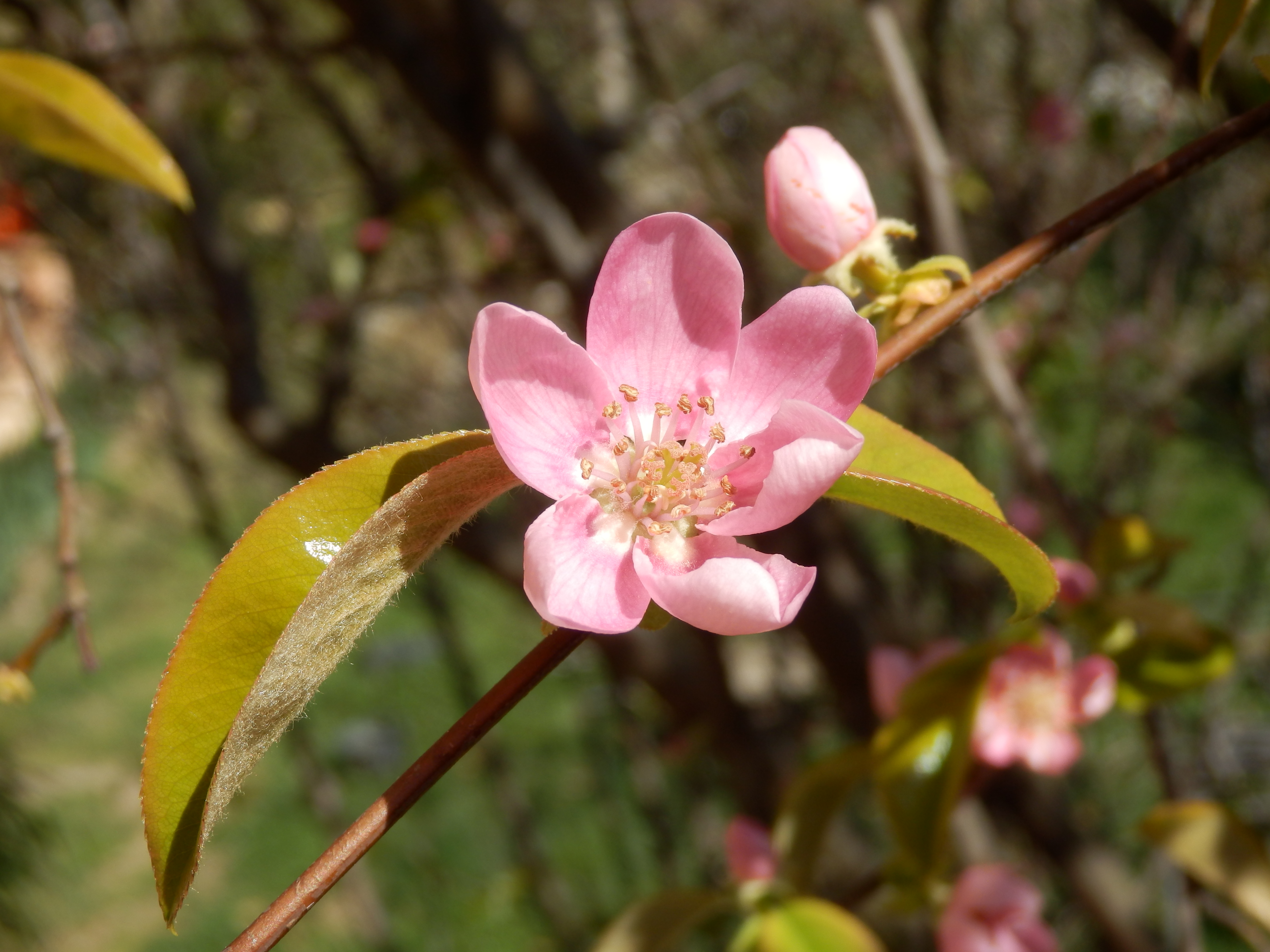 Pseudocydonia sinensis flower (Montseret,Aude,France)